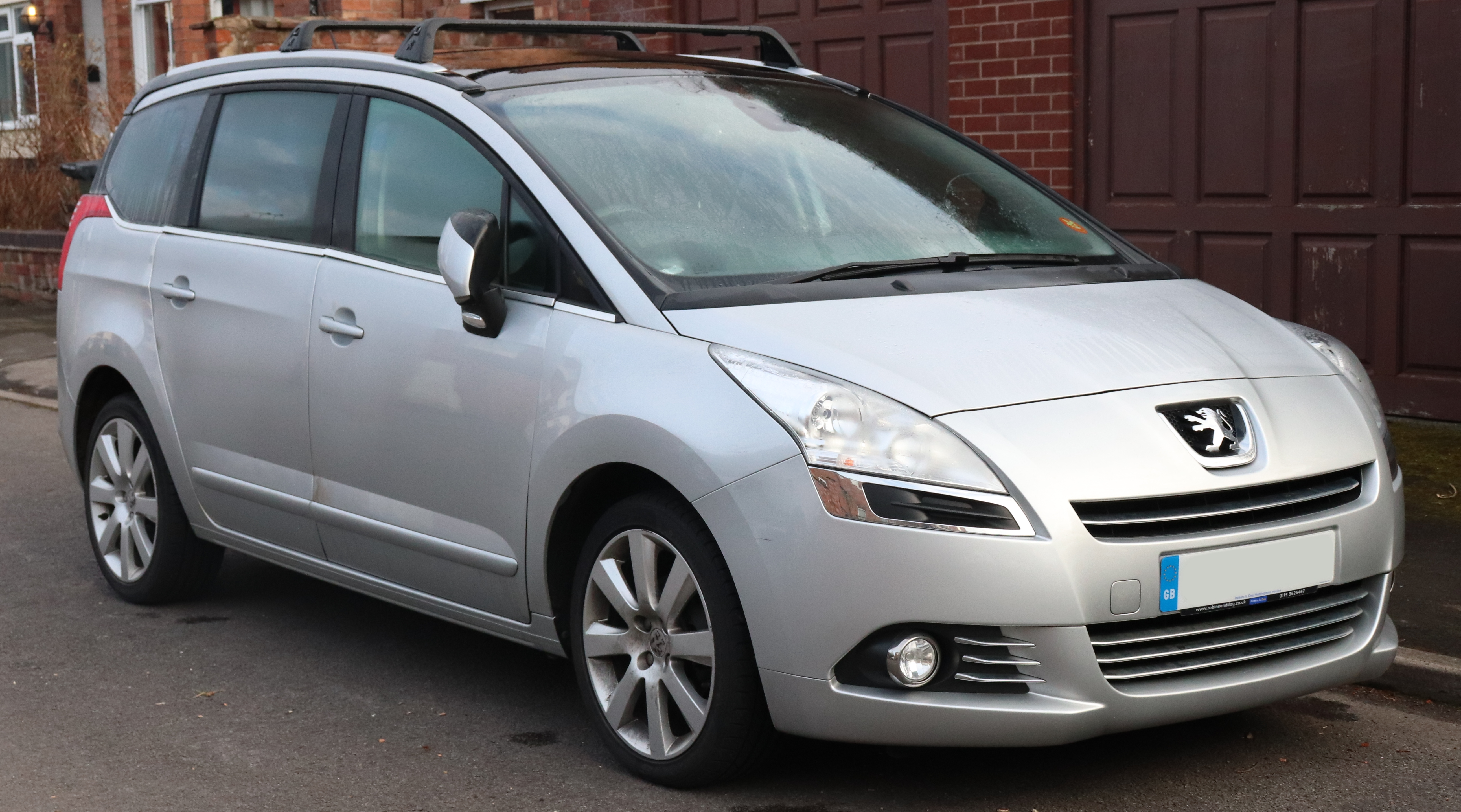 2014 Peugeot 5008 Allure HDi 1.6 Front Taken in Leamington Spa